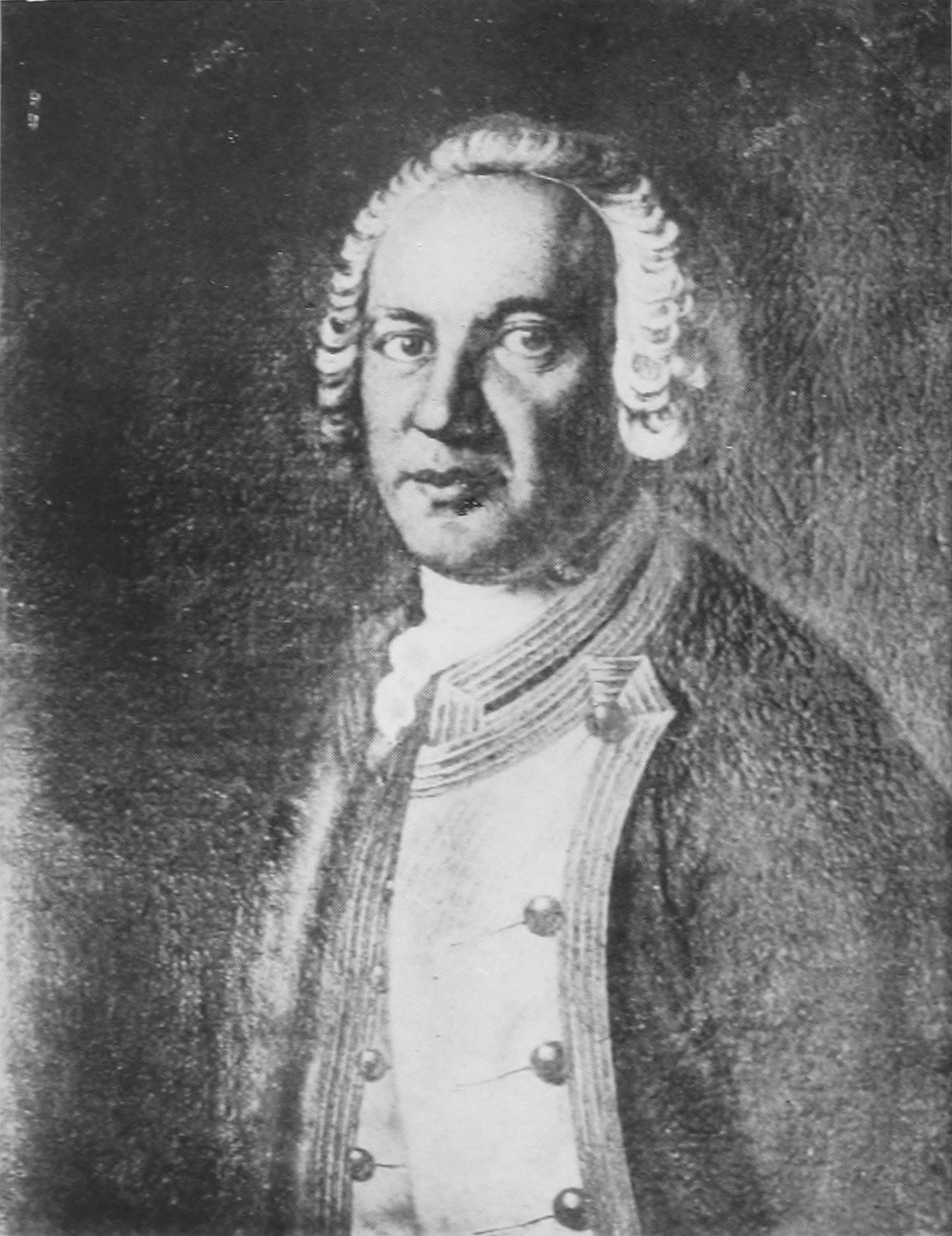 Portrait of Admiral Matthew Buckle (1718-1784). For bibliography